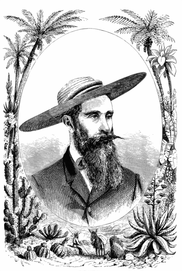 This is a sketch of the author - Colonel Albert S. Evans.